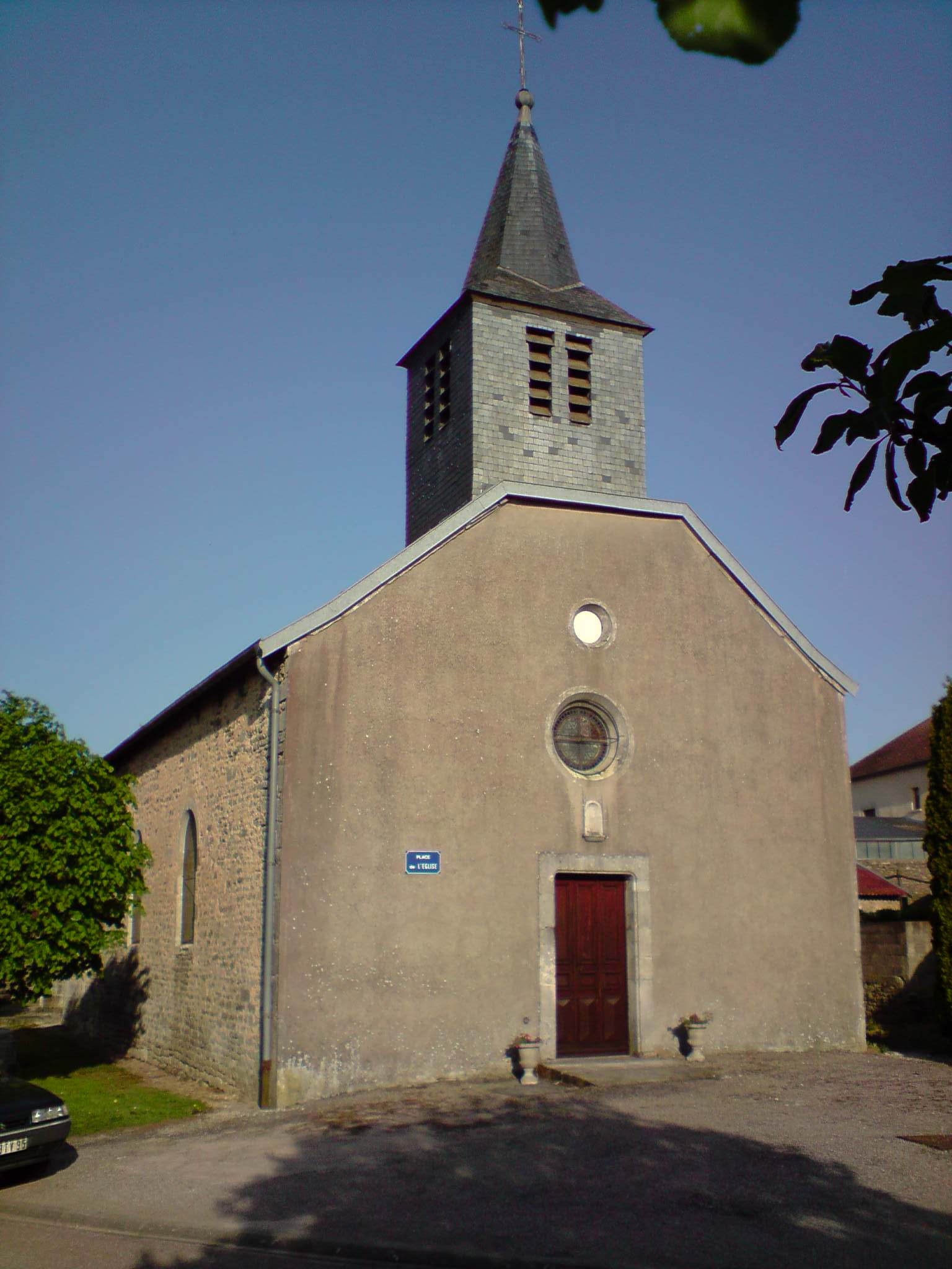 Church of the city of Ozières, Haute-Marne, France.